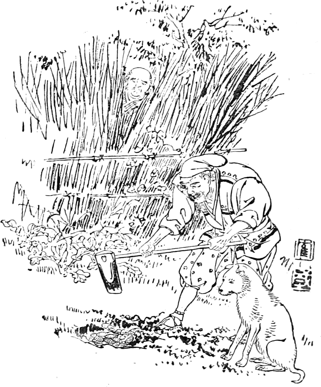 Image from The Japanese Fairy Book